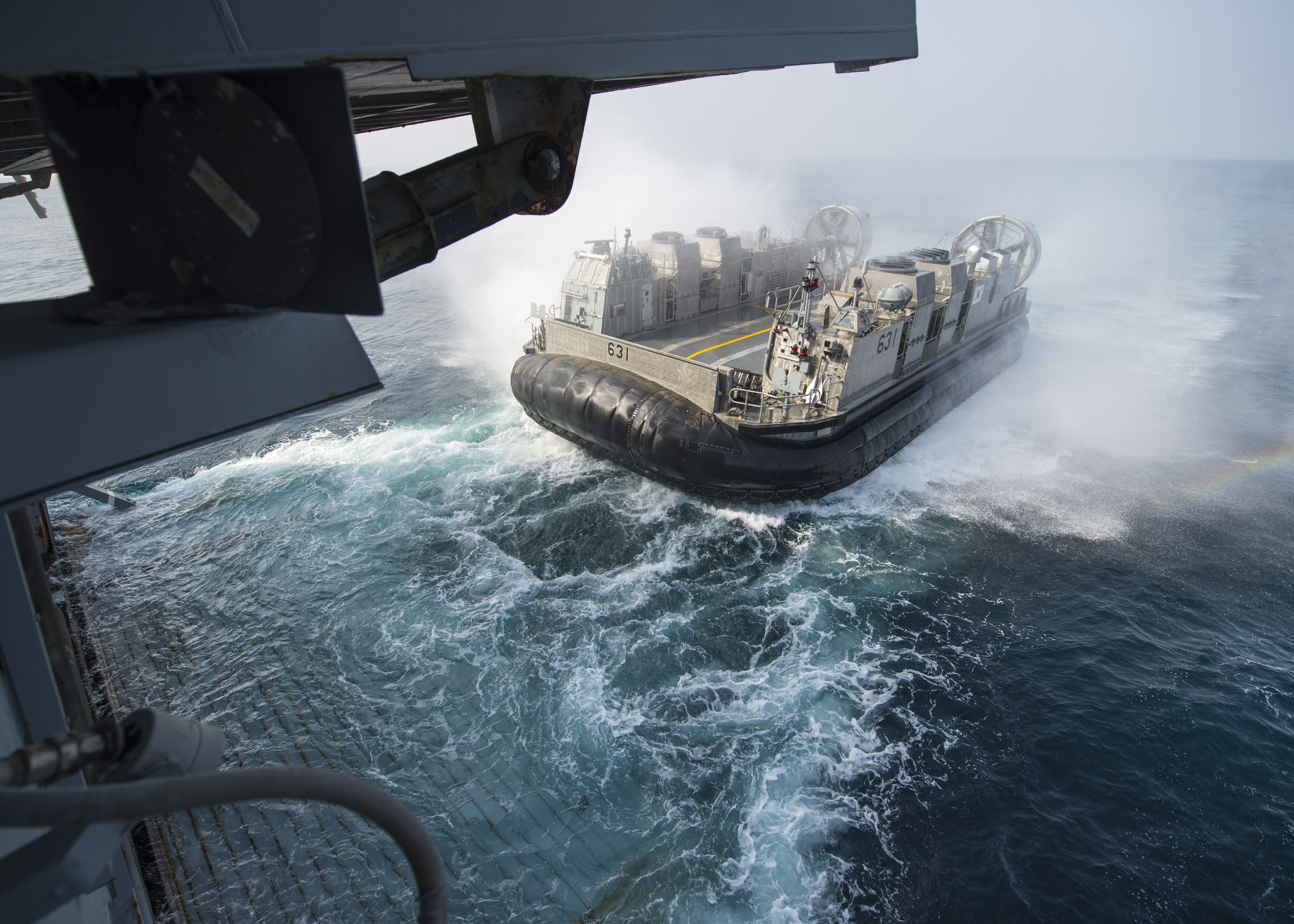 150329-N-EI510-039 WATERS TO THE EAST OF THE KOREAN PENINSULA (March. 29, 2015) Republic of Korea navy Landing Ship Fast (LSF) 631 enters the well deck of the amphibious transport dock ship USS Green Bay (LPD 20). U.S. Sailors and Marines from the Bonhomme Richard Amphibious Ready Group (ARG) and the 31st Marine Expeditionary Unit (MEU) are participating in the Korean Marine Exchange Program (KMEP) in the Republic of Korea (ROK) with the ROK Marine Corps and Navy. The Bonhomme Richard ARG is comprised of the amphibious assault ship USS Bonhomme Richard (LHD 6), the amphibious transport dock ship USS Green Bay (LPD 20), the Whidbey Island-class amphibious dock landing ship USS Ashland (LSD 48) and the embarked 31st MEU. (U.S. Navy photo by Mass Communication Specialist 3rd Class Scott Barnes/Released).